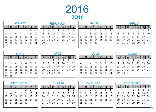 A 2016 Calendar in Fering